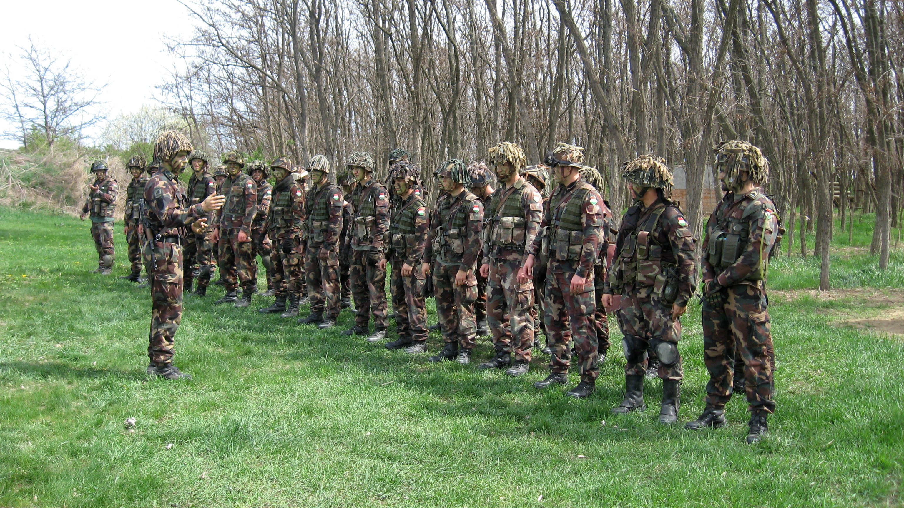 Infantrymen of Hungarian Army's 25/88th Light Mixed Battalion